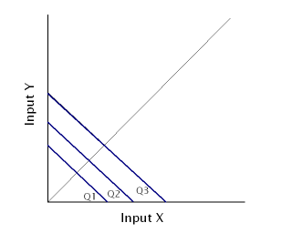 Isoquant map showing inputs that are perfect substitutes